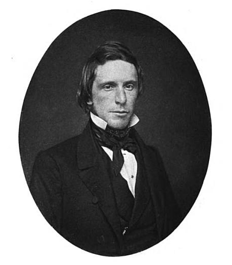 Portrait of Henry Oscar Houghton